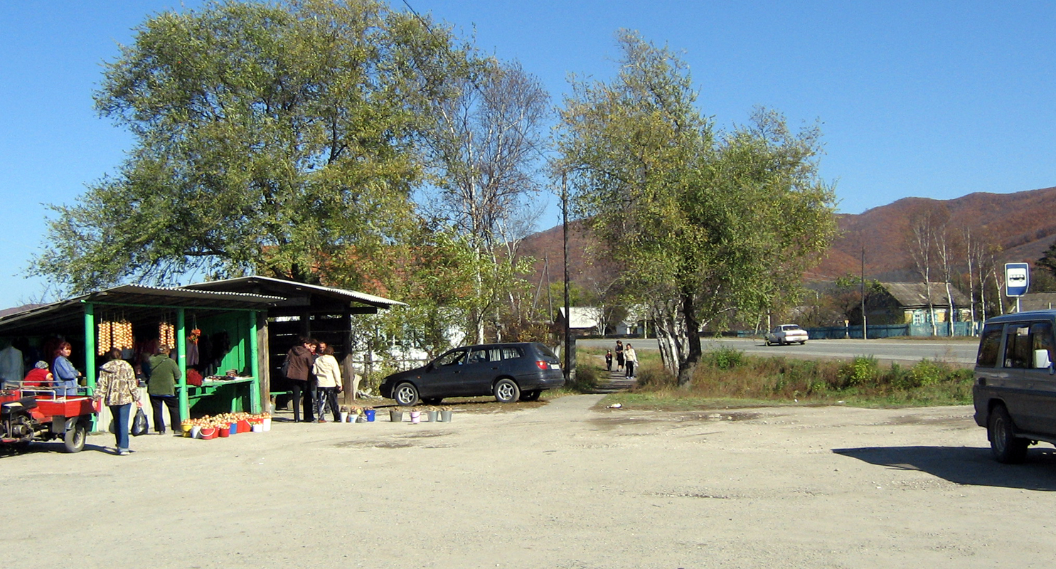 Frolovka village. Russia, Primorsky Krai.